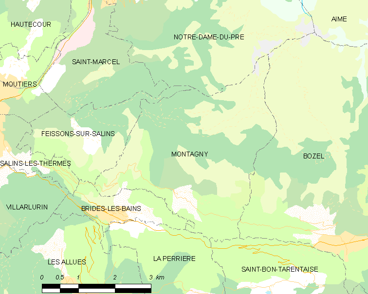 Map of French municipality